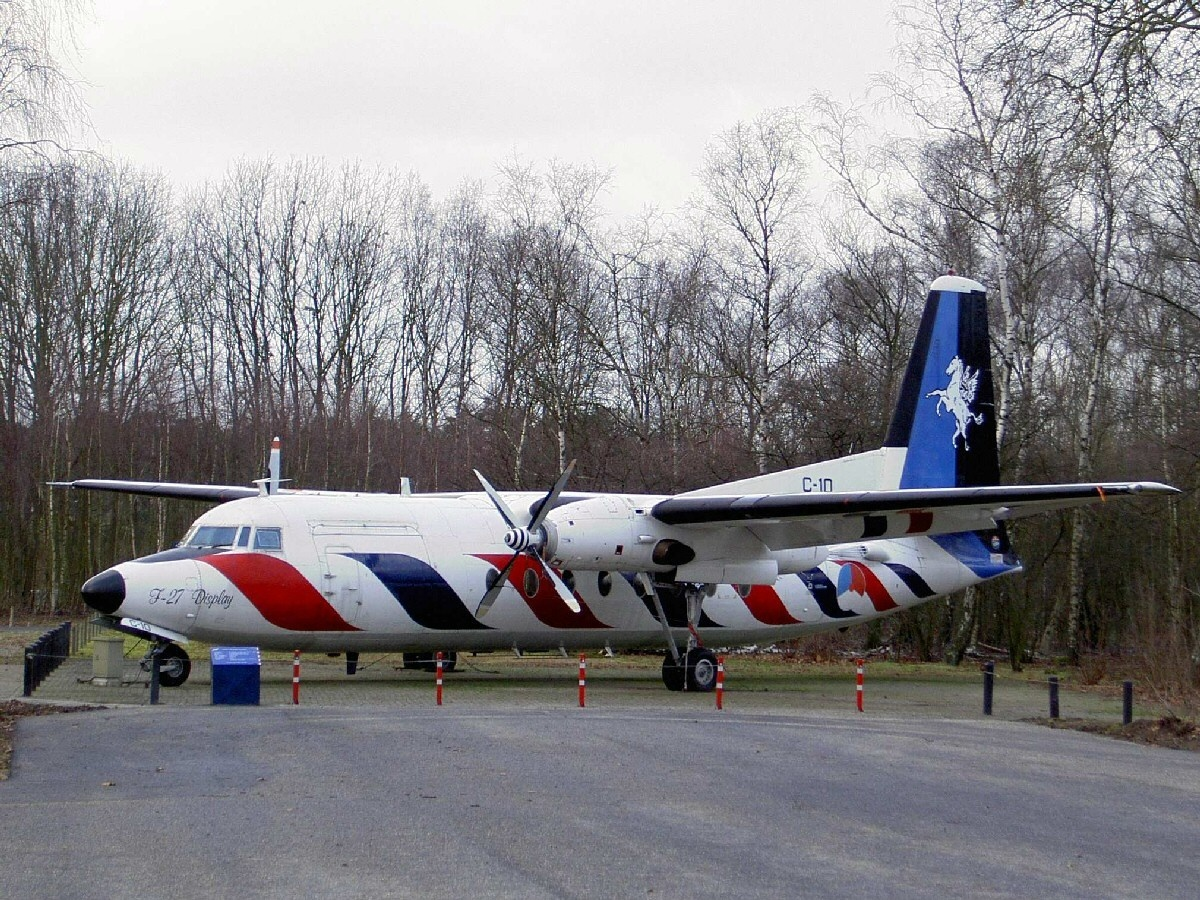 Photographed at Militaire Luchtvaart Museum Soesterberg.